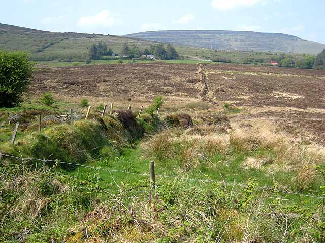 Rough grassland at Treanmacmurtagh On the horizon is Kesh Corran G7112, rich in historic and pre-historic remains.